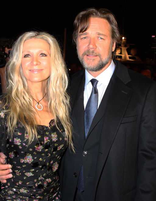 Danielle Spencer and Russell Crowe at the official launch of The Star casino.